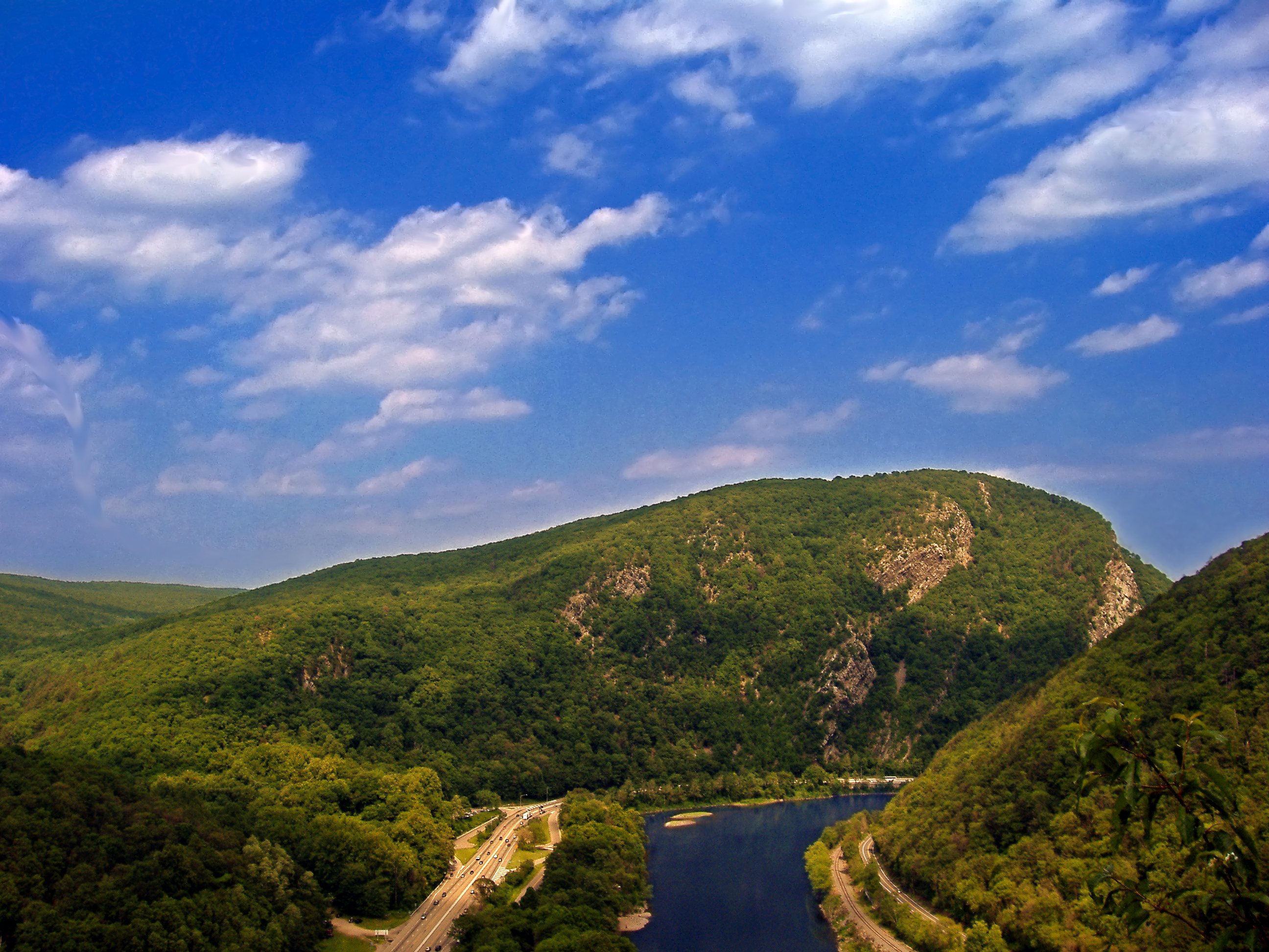 Delaware Water Gap, as seen from the Appalachian Trail at Mount Minsi, Pennsylvania.